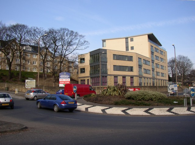 Busy roundabout at the foot of Halifax Road, Brighouse. At SE143229. At the top left is not the former Brighouse Girls' Grammar School, now flats. To the right is a new block of flats, and behind the flast is the old Brighouse Girls Grammer, now Brighouse High School Sixth form centre. and past it the Brighouse bypass going eastwards to meet the Bradford and Wakefield roads.